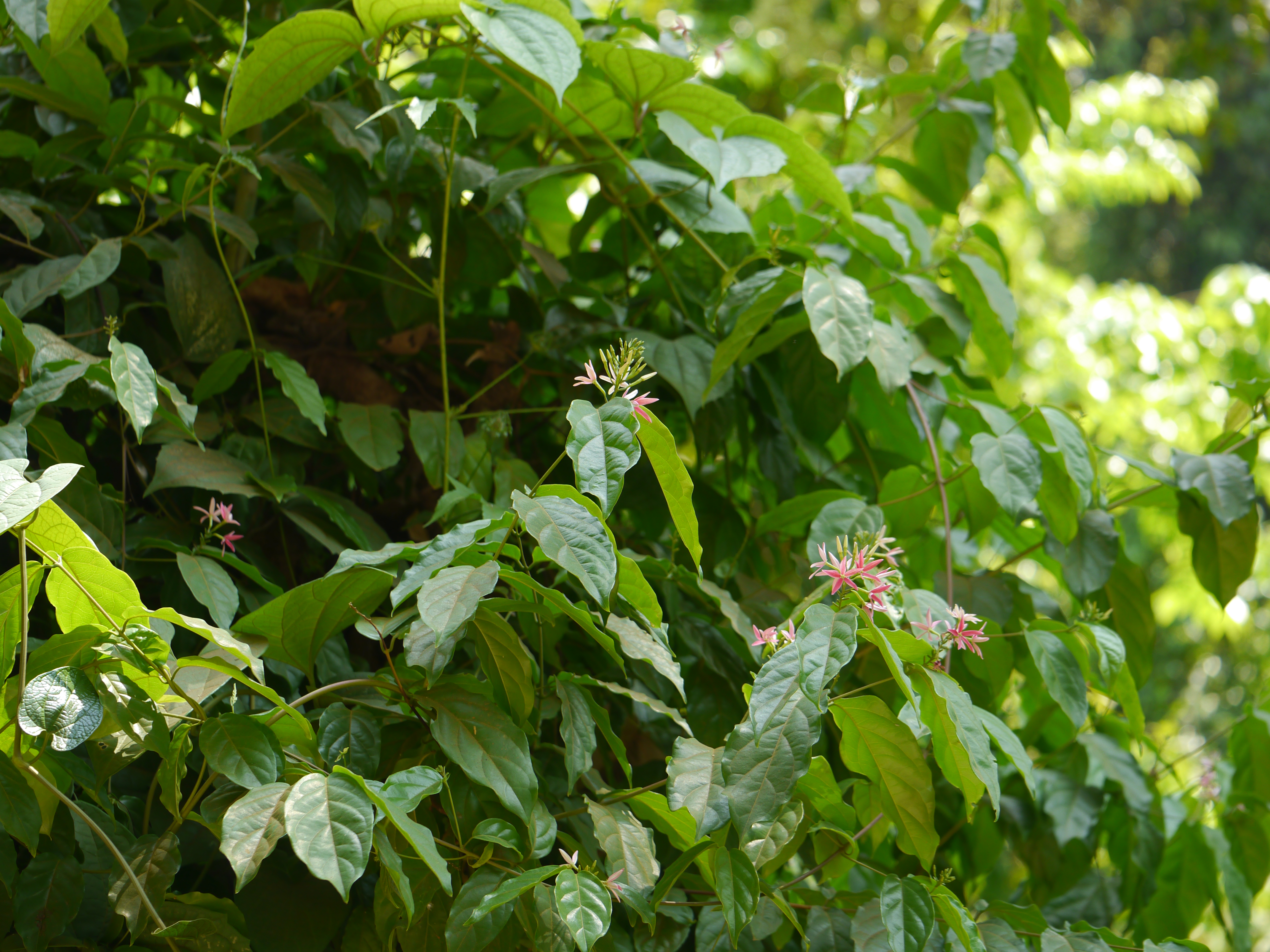 Combretum malabaricum - സന്ധ്യാറാണി